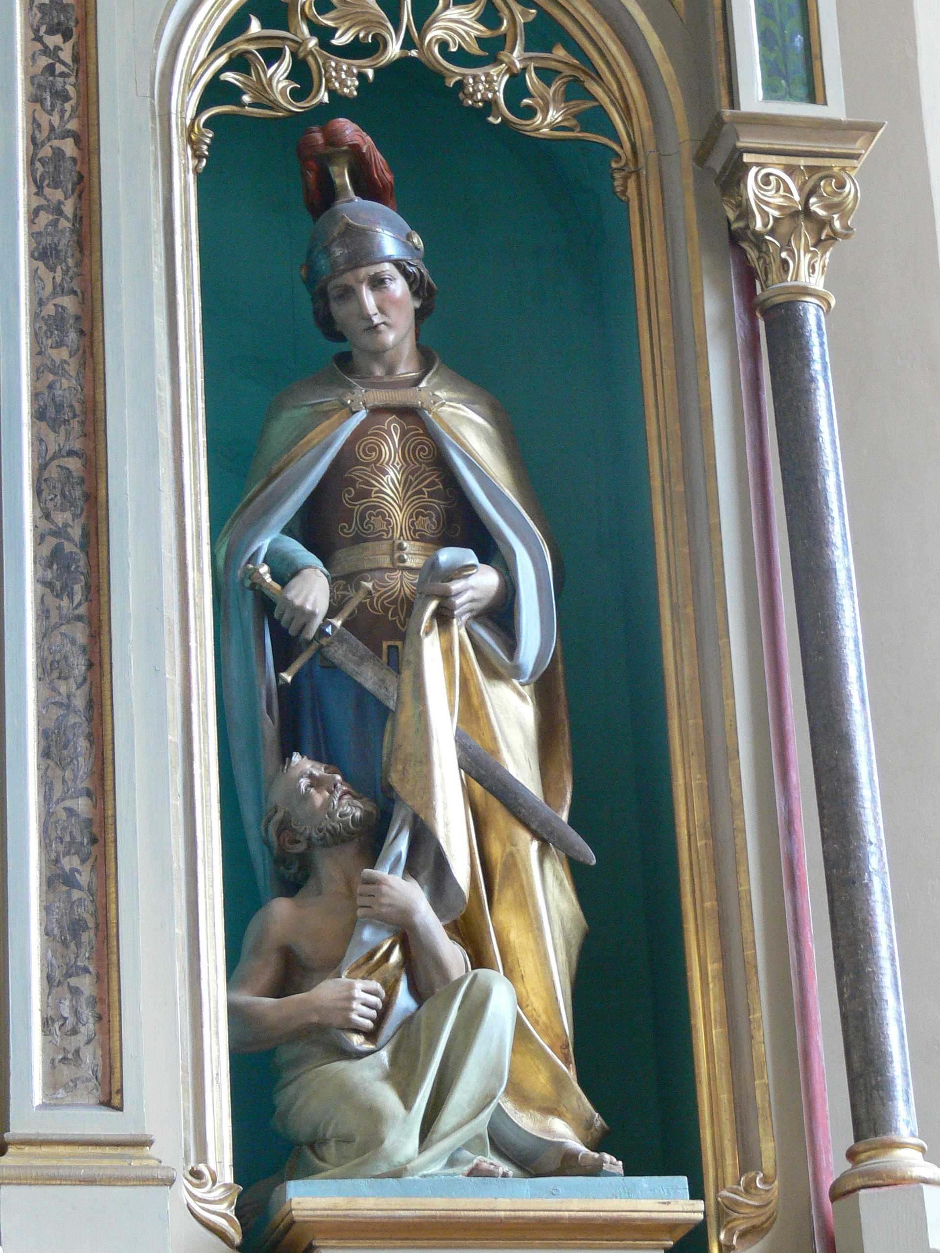 Wolframs-Eschenbach. Cemetery-church St.Sebastian. Neo-romanesque high altar (19th century): St.Martin and the beggar